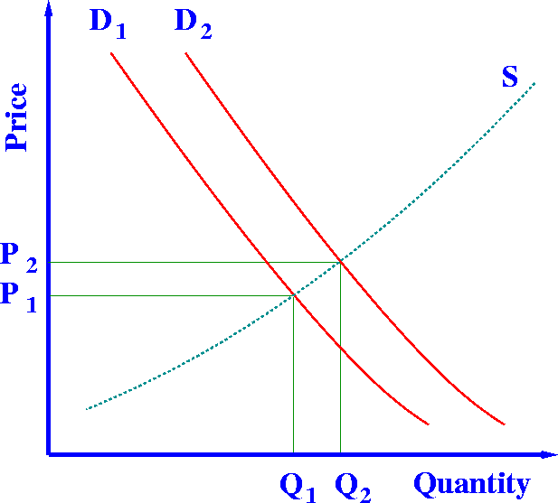 This supply and demand model shows how prices vary because of a balance between the availability of a product and the demand for it. The graph shows an increase in demand from D1 to D2 with the resulting increase in price and the amount needed to reach a new balance point on the supply curve (S).